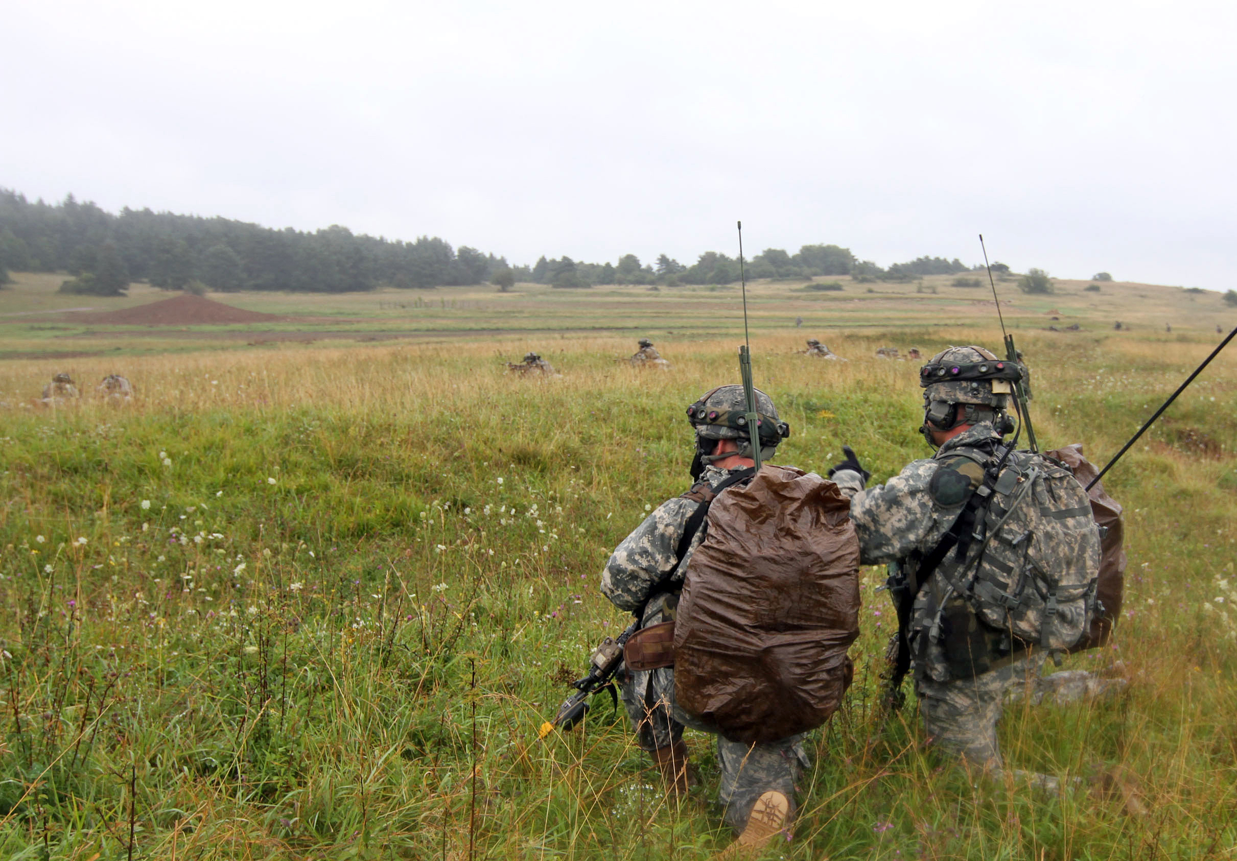 U.S. Army paratroopers with the 503rd Infantry Regiment, 173rd Airborne Brigade Combat Team respond to a simulated attack Aug. 26, 2014, during platoon-sized movements as part of Saber Junction 2014 at the Hohenfels Training Area in Bavaria, Germany. Saber Junction is a U.S. Army Europe-led exercise designed to prepare U.S., NATO and international partner forces for unified land operations.